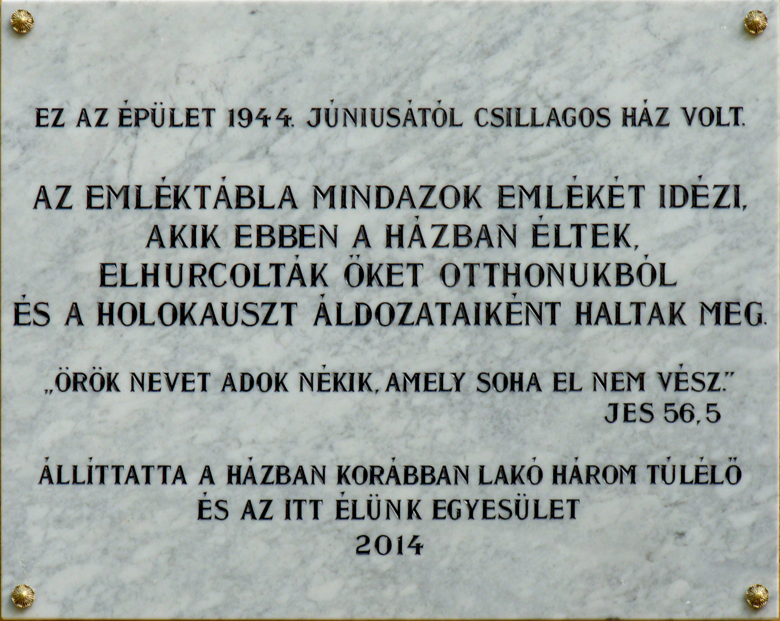 Plaque commemorating the 70th anniversary of the designation of this building as ‘Yellow Star House’ in 1944. These buildings served as forced residences for Budapest’s Jews until the establishment of the ghetto. The plaque was installed and unveiled by three former residents survives the Holocaust and the Association "We Live Here" 21 June 2014. Quote: “I will give them an everlasting name that will endure forever.” /Isaiah 56:5/ (Budapest, District III, Nagyszombat Street Nr 6)